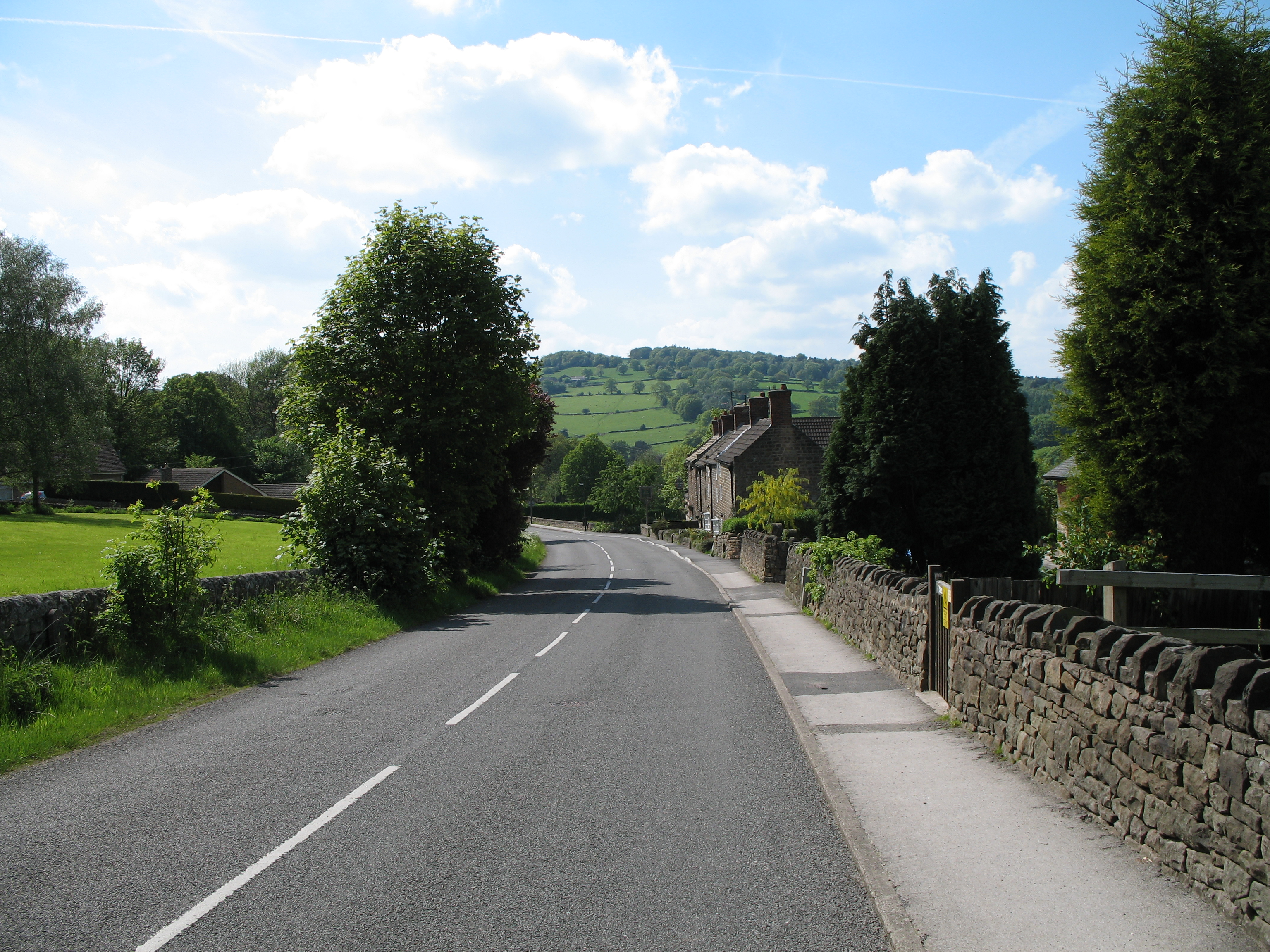 Lea in Derbyshire.